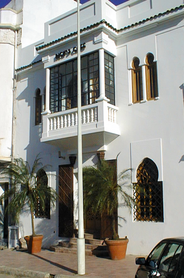 Rick's Café Casablanca in daylight